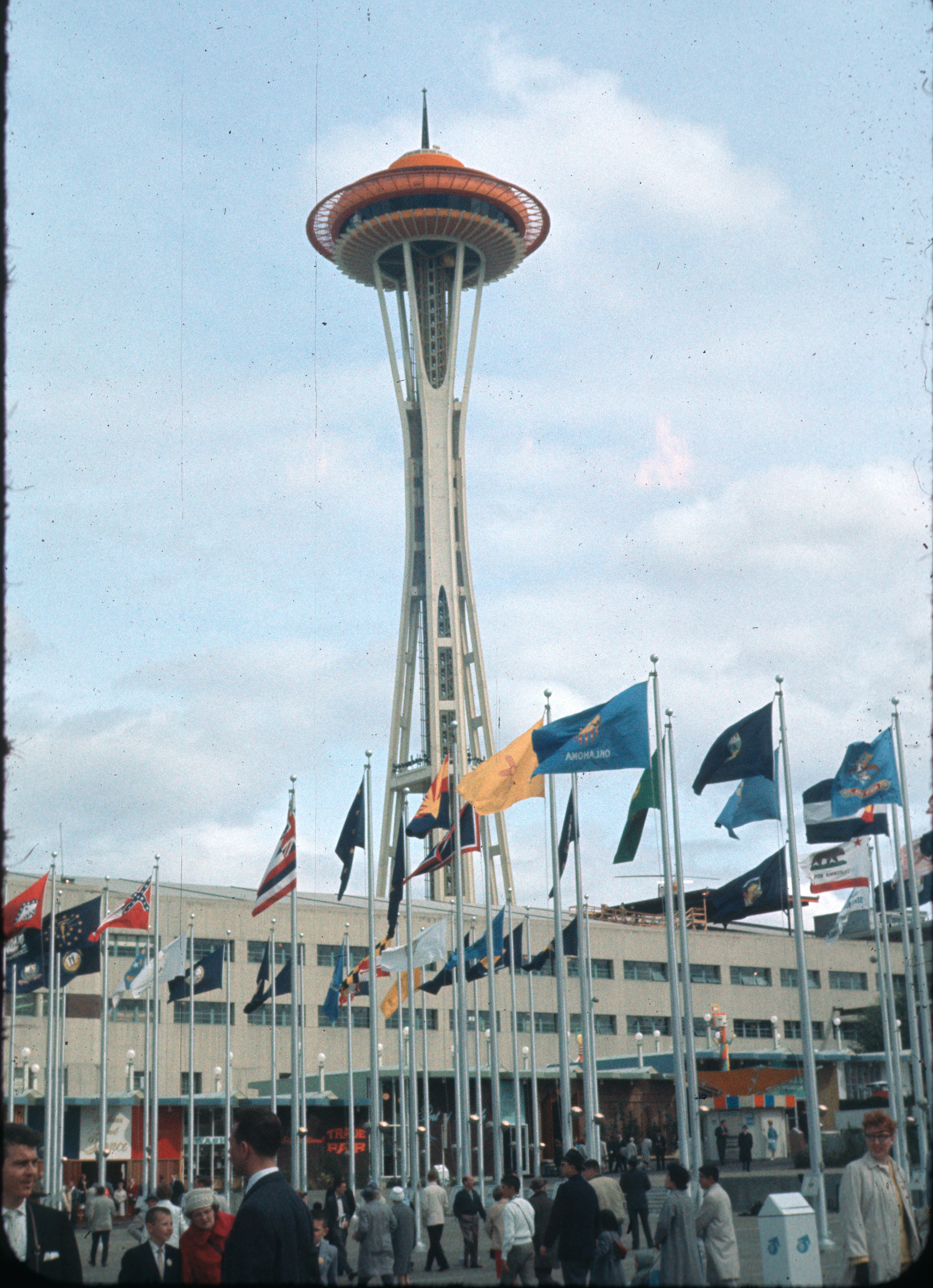 Space Needle during Century 21 Exposition, Seattle, Washington, 1962. Item 77810, Jim Skinner Photograph Collection (Record Series 9975-01), Seattle Municipal Archives.